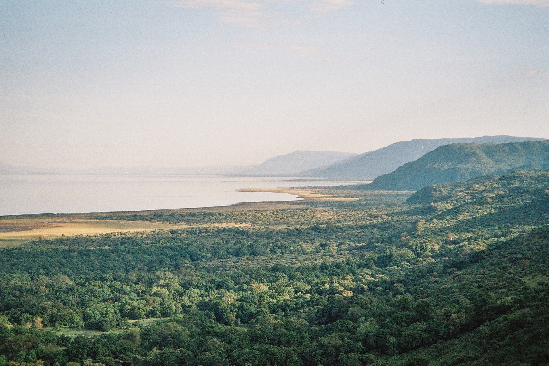 View of Lake Manyara in Northern Tanzania. The lake is seen from the Great Rift's rim, that is also clearly visible on the right of the picture. On the lower part of the picture, the small patch of tropical forest is part of Lake Manyara National Park.